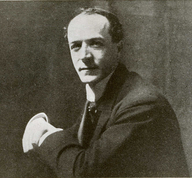 Photo of Gervase Elwes (tenor)